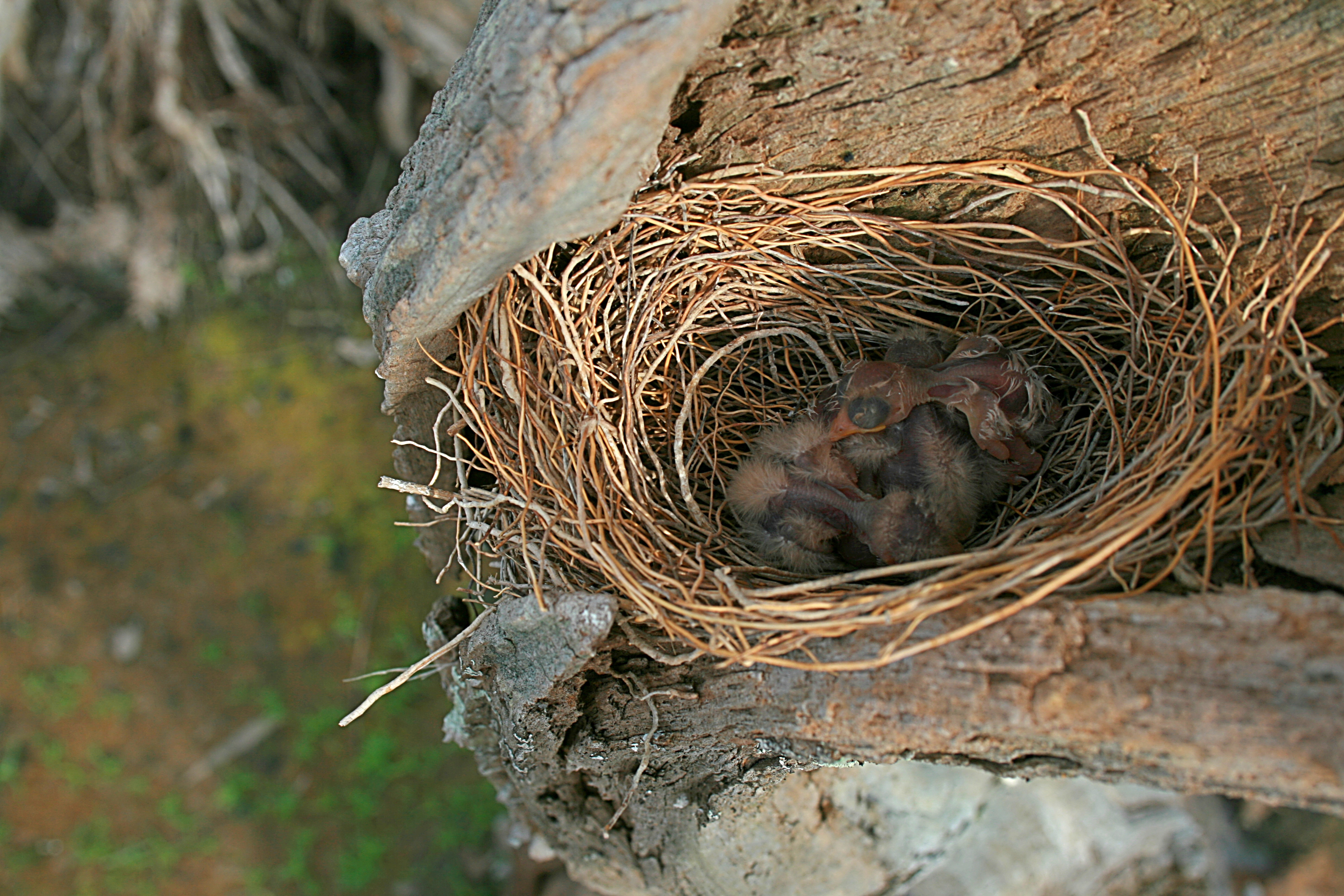 Three White-breasted Woodswallow (Artamus leucorynchus) chicks in their nest on the foreshore of the lagoon between MacMasters and Copacabana beach on the central coast of New South Wales, Australia.